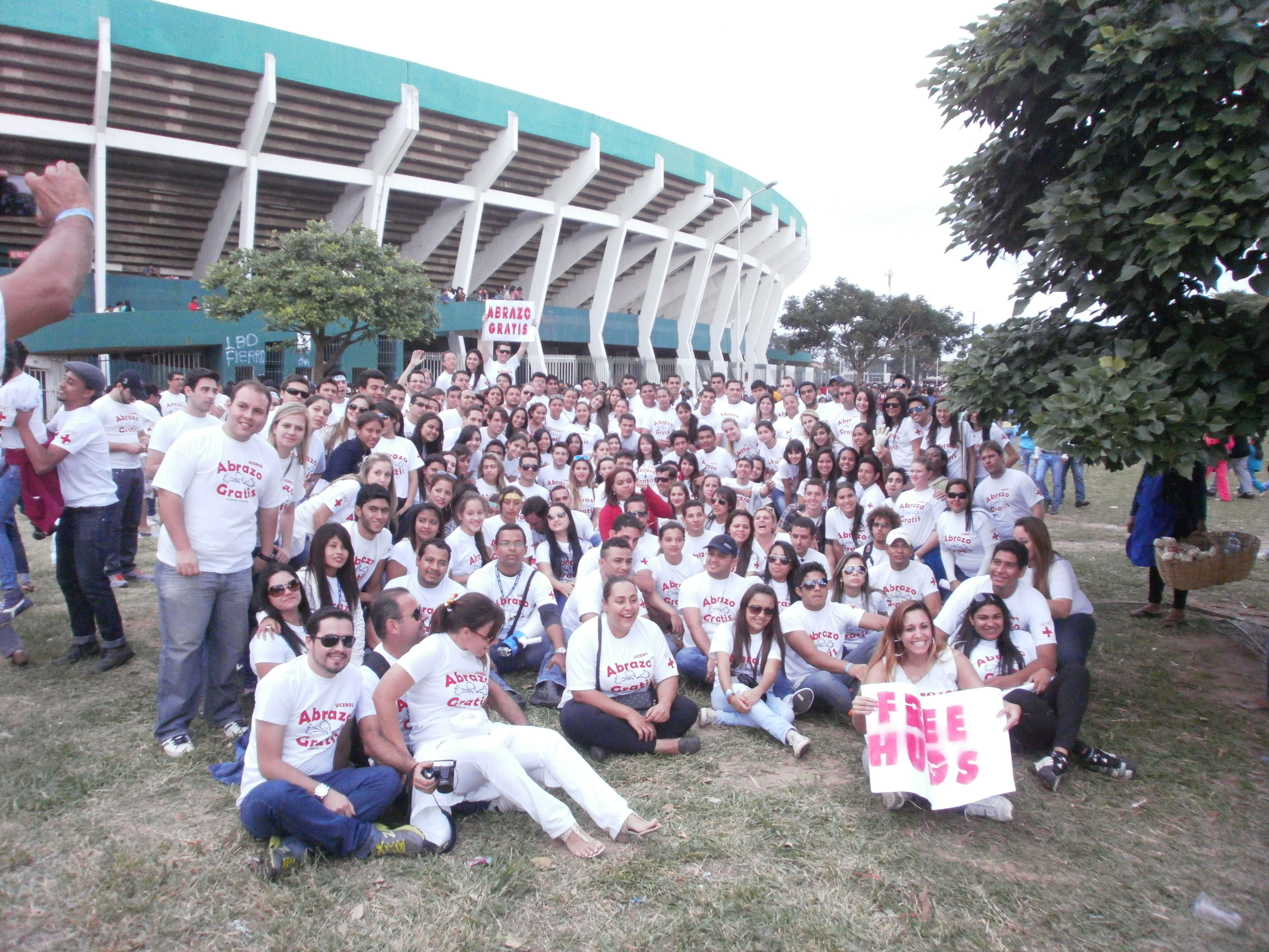 Over 300 medical students, gave more then 30,000 free hugs in Santa Cruz de la Sierra, Bolivia, at Corpus Christi mass on may 30th, 2013 promoted by SEAS DOM.